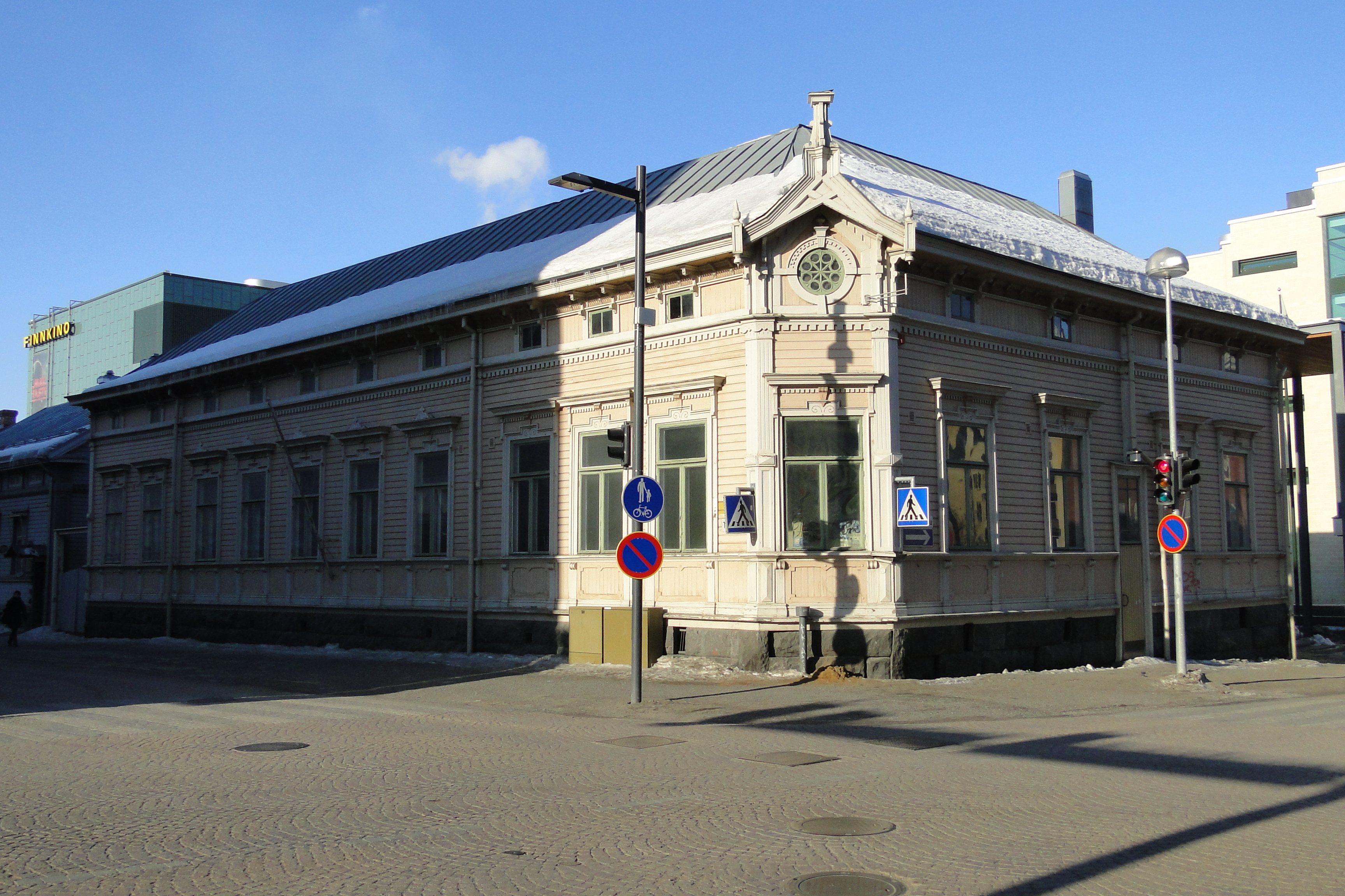 Riekin talo julkisivu 1